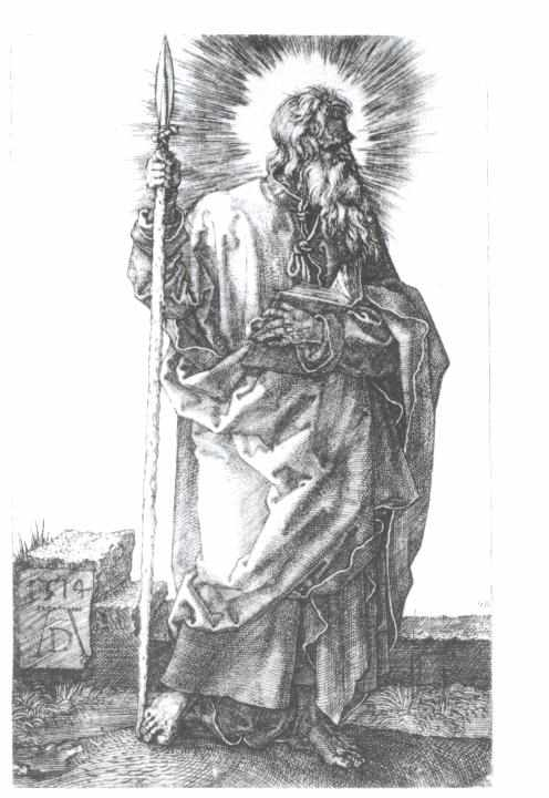 Apostle Thomas